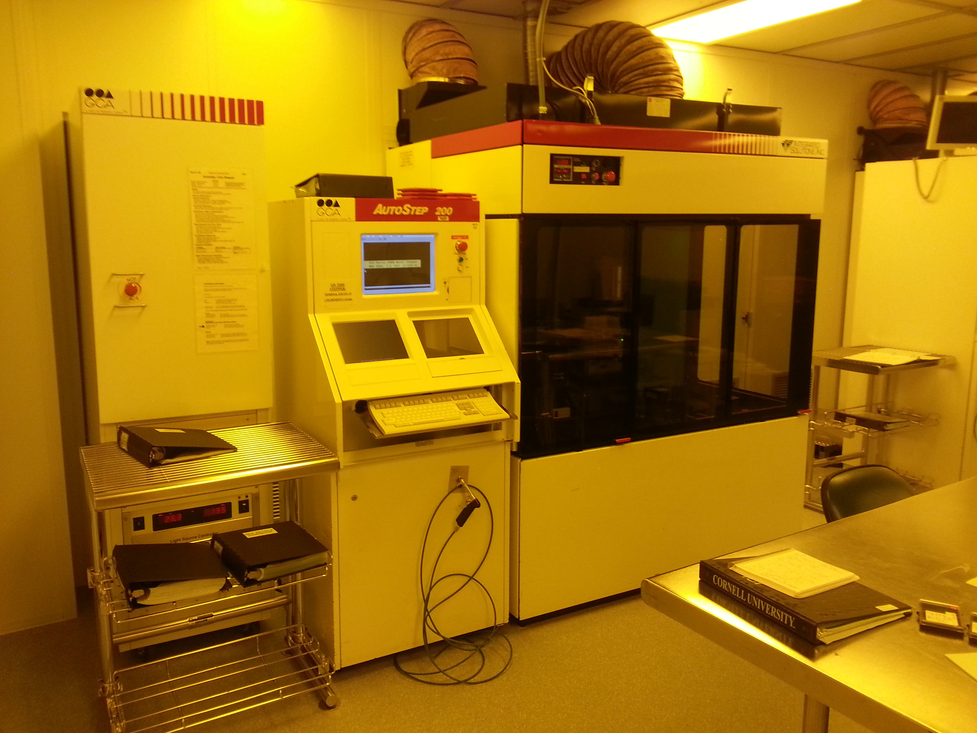 Autostep i-line stepper for microelectronic photolithography